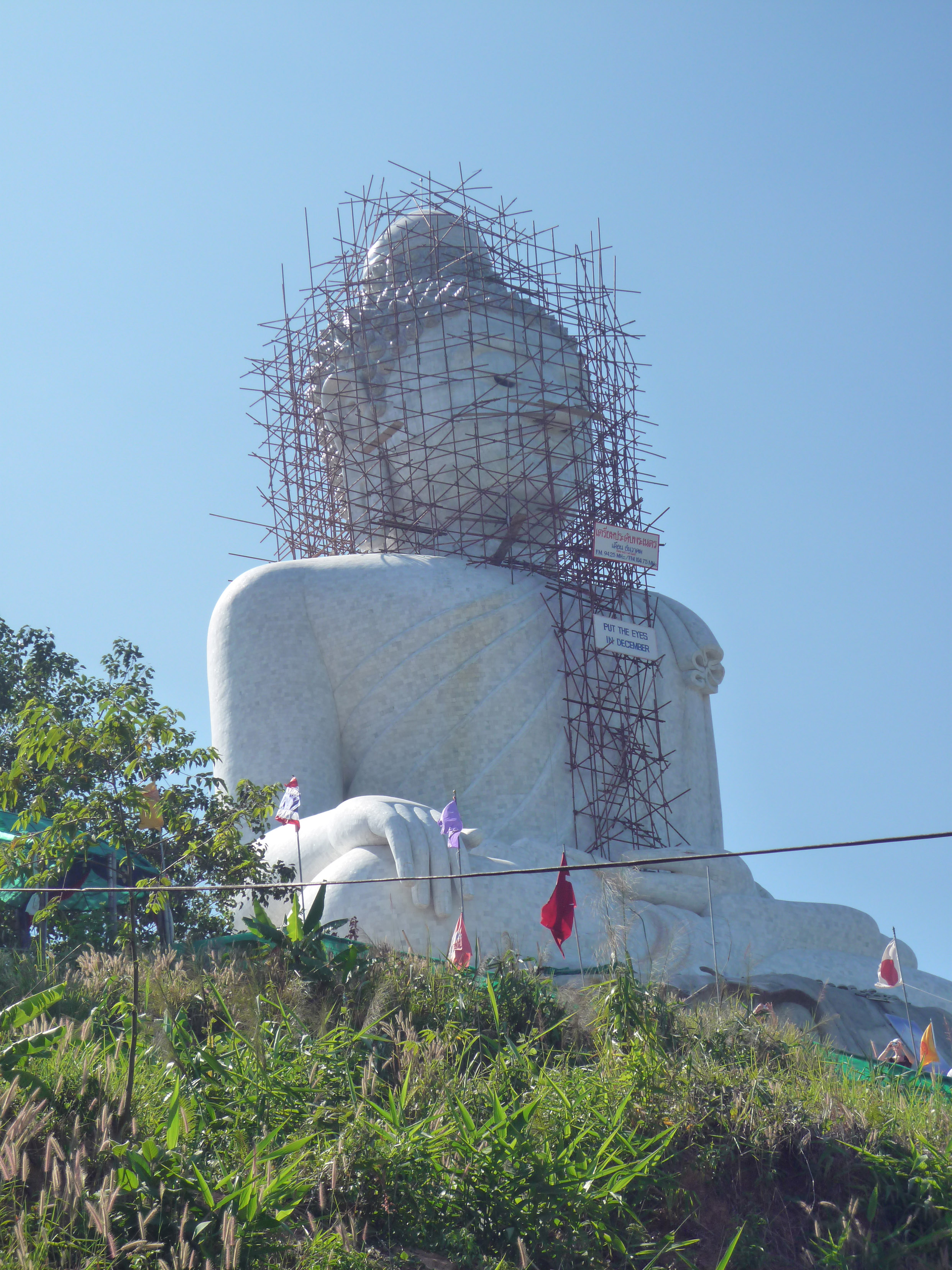 Phuket's Big Buddha